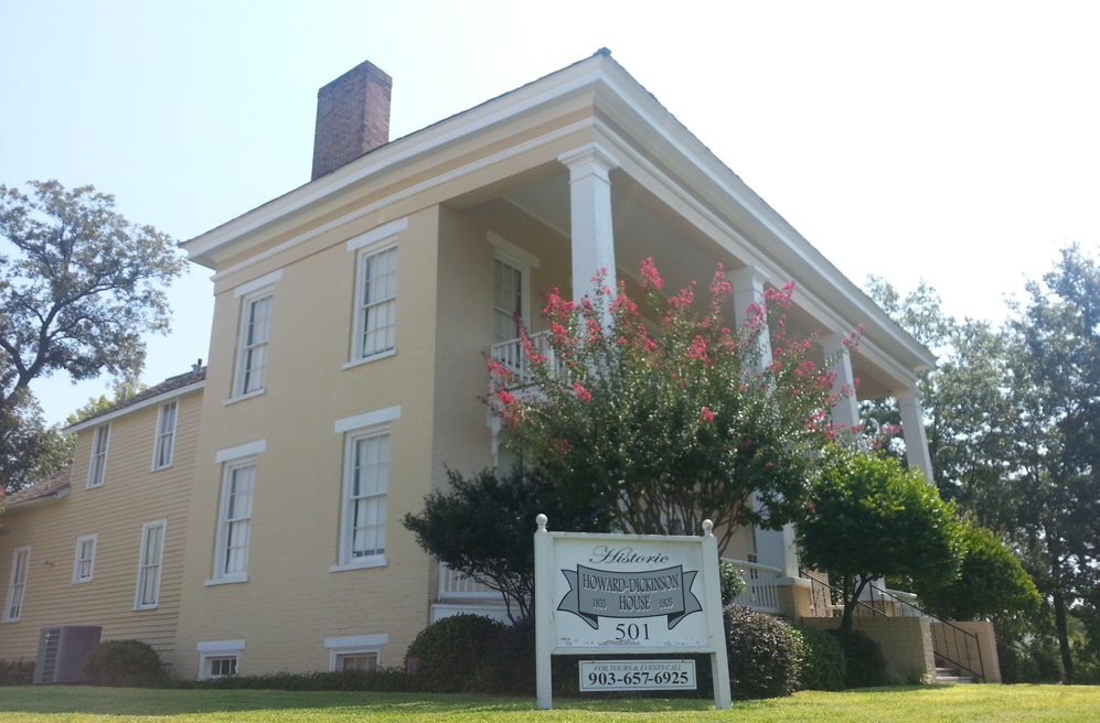 View of the Howard-Dickinson House, museum and historic marker, in Henderson, TX.